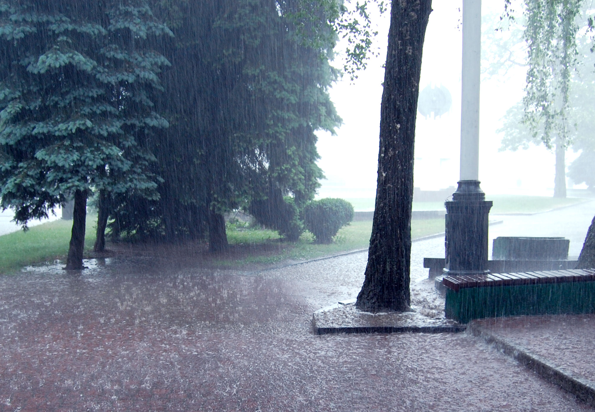 Rain, Rainy weather